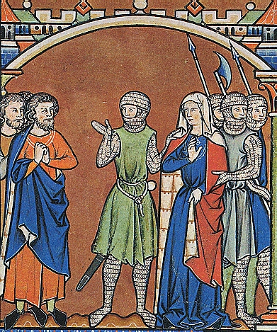 Maciejowski Bible, Leaf 37, the 3rd image, Abner (in the center in green) sends Michal back to David. Palti is shown on the left.